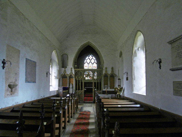 Interior of the Church of St. Giles, Risby